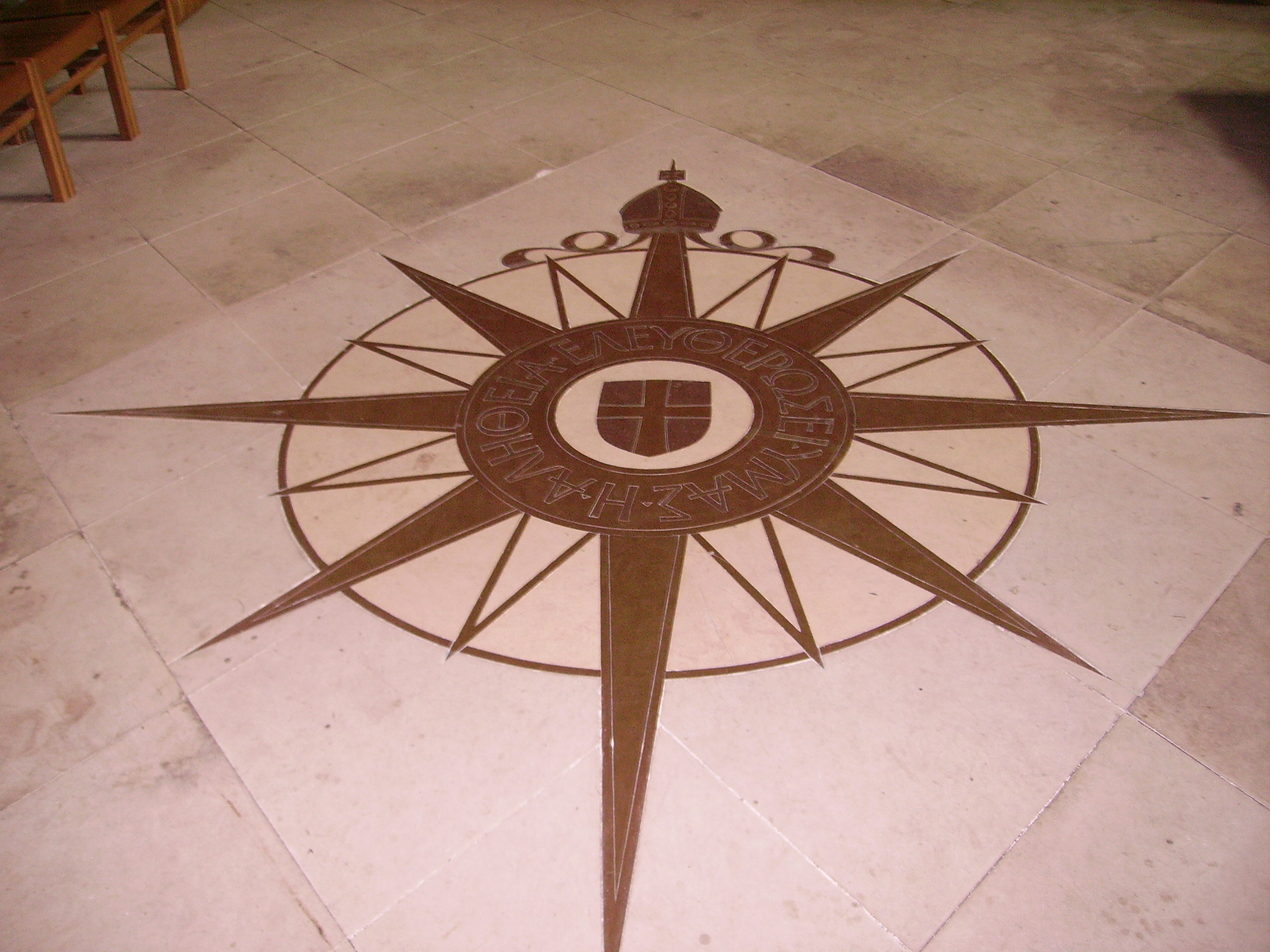 star of Greek Orthodox Church in Canterbury Cathedral in Canterbury, United Kingdom, ELEUTHEROS = Freedom; ALEITHIA = truth